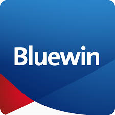 Logo of the Swiss mail provider Bluewin